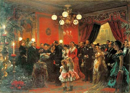 the baptism of the artist’s oldest son Fritz on February 10, 1879. Prussia’s Crown Princess Victoria – the daughter of England’s Queen Victoria – and Prussian Postmaster General Heinrich von Stephan served as godmother and godfather. Werner’s well-appointed Berlin villa on Potsdamer Strasse and its “red salon” [roter Salon] are shown here (his studio was on the second floor). The artist himself is also featured, as is his friend, the painter Ludwig Knaus (1829-1910), who appears in the background. The smiling crown princess holds the child in her arms, while her husband, Crown Prince Friedrich Wilhelm (the future Kaiser Friedrich III), stands at center right (with full beard, holding his helmet).